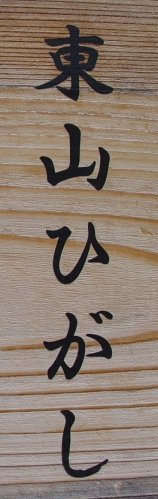 Higashi Yama District of Kanazawa